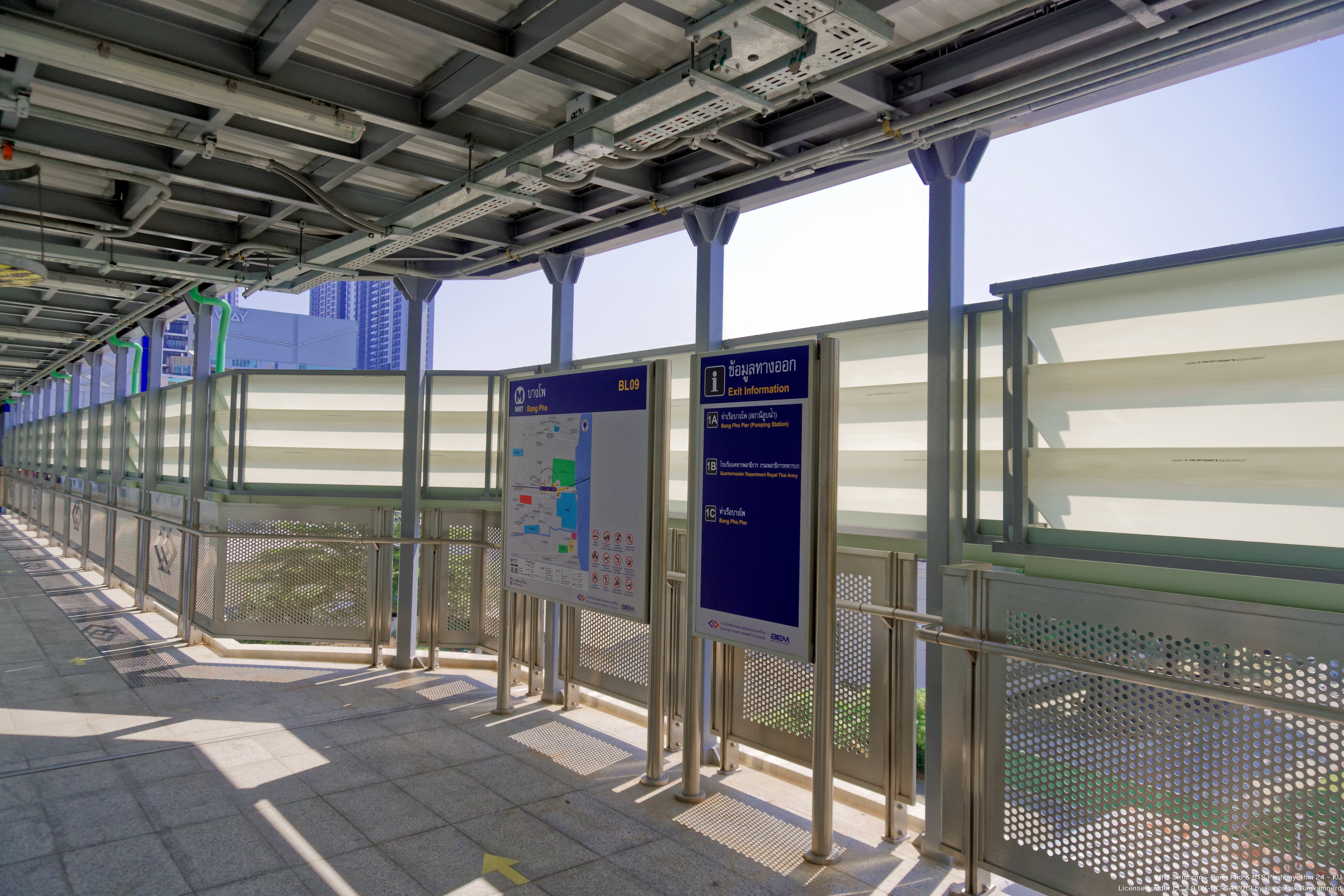 MRT Bang Pho - Exit 1 Info boards